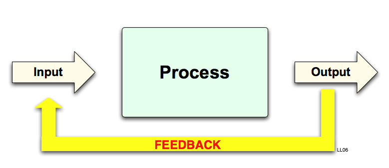 Feedback process ( terugkoppeling proces). Laurens van Lieshout januari 2006.